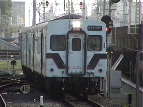 A JR West KiHa 35-300 series DMU approaching Hyogo Station on a Wadamisaki Line service